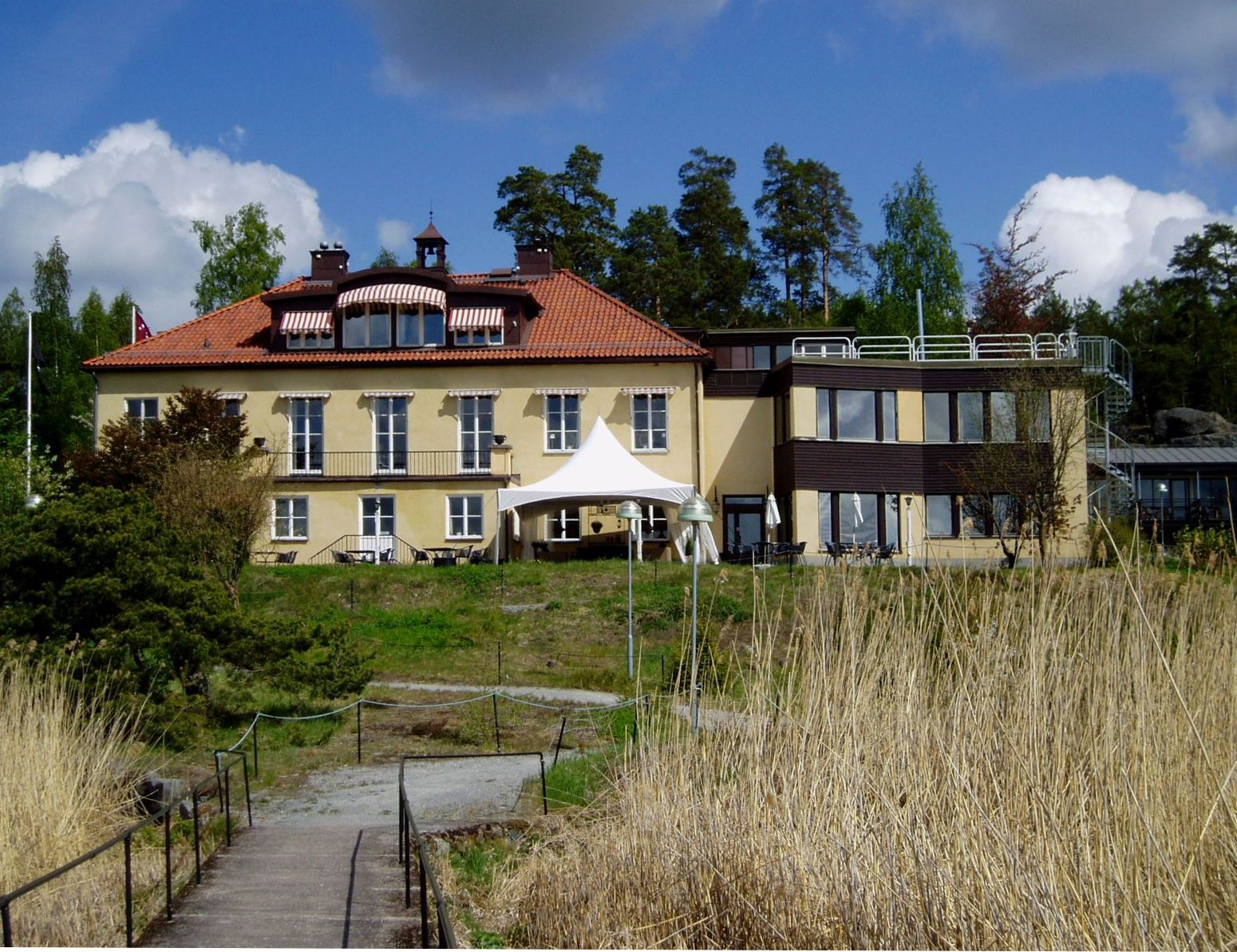 Mansion at Almåsa, Haninge kommun, sweden